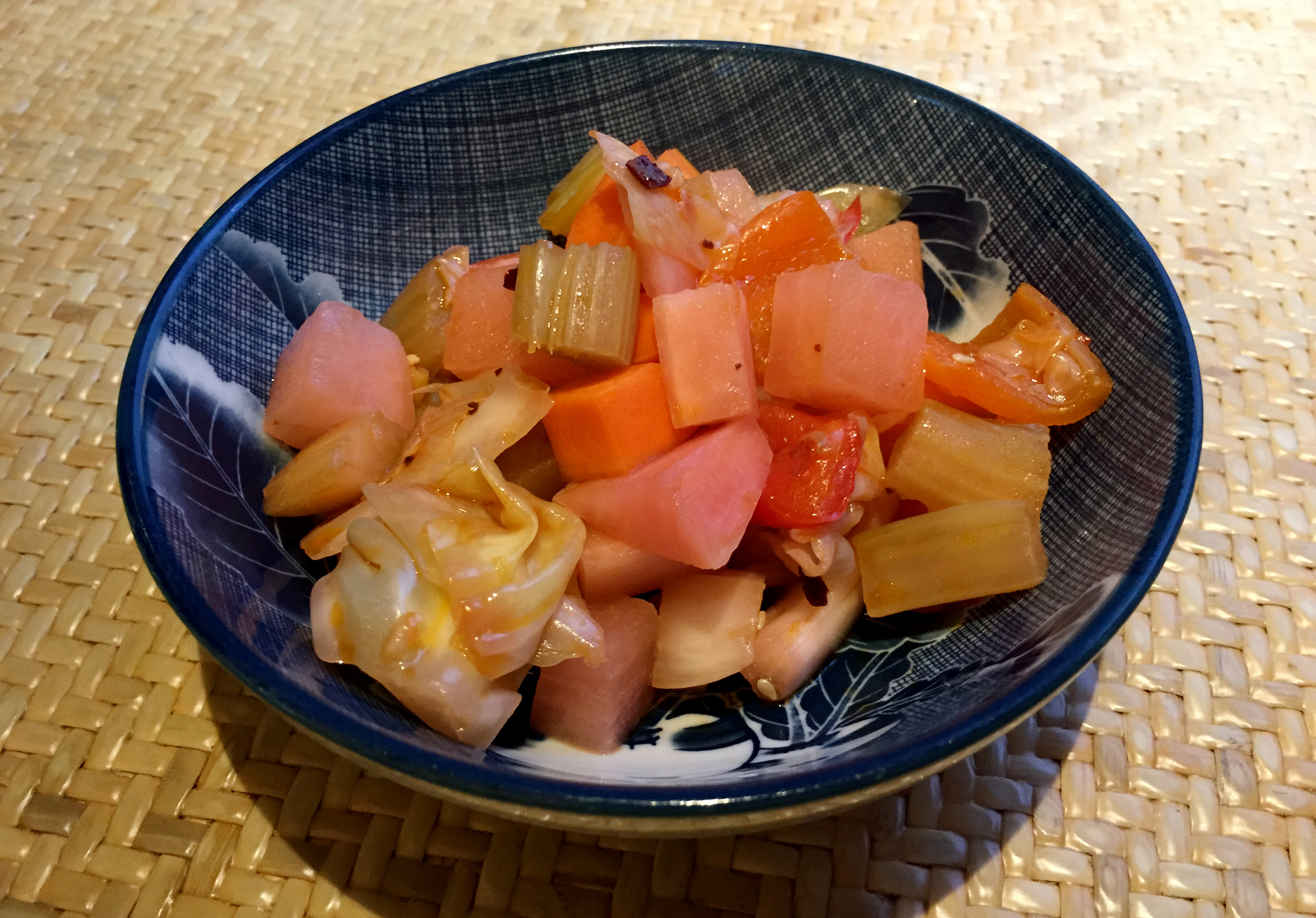 Distinct from kimchi, we still call it Paocai.